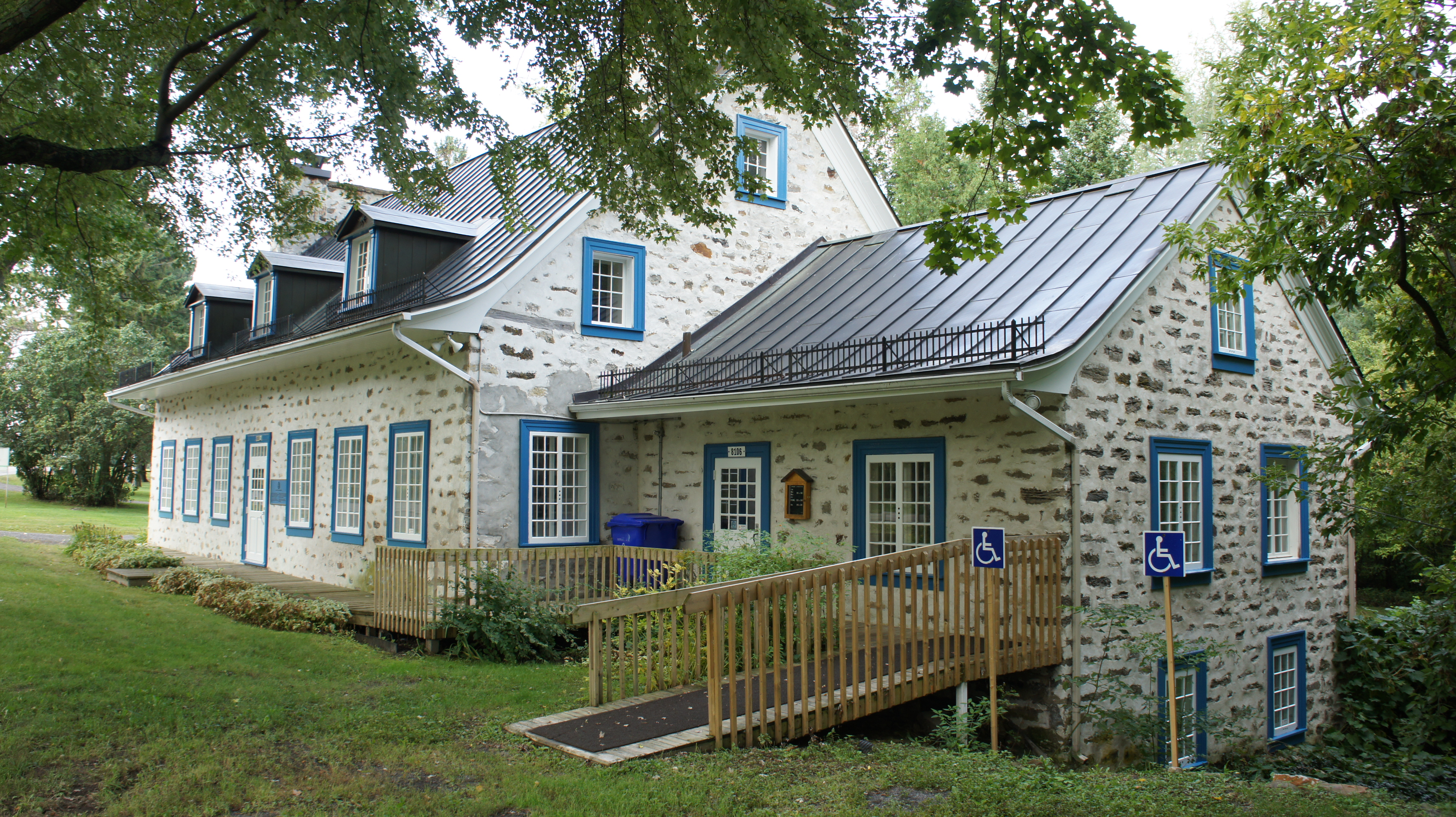 The domain and the manor house of Belle-Rivière, classified in 1963, includes an impressive house built in 1804 and its domain, a forested ground around the river Belle-Rivière.